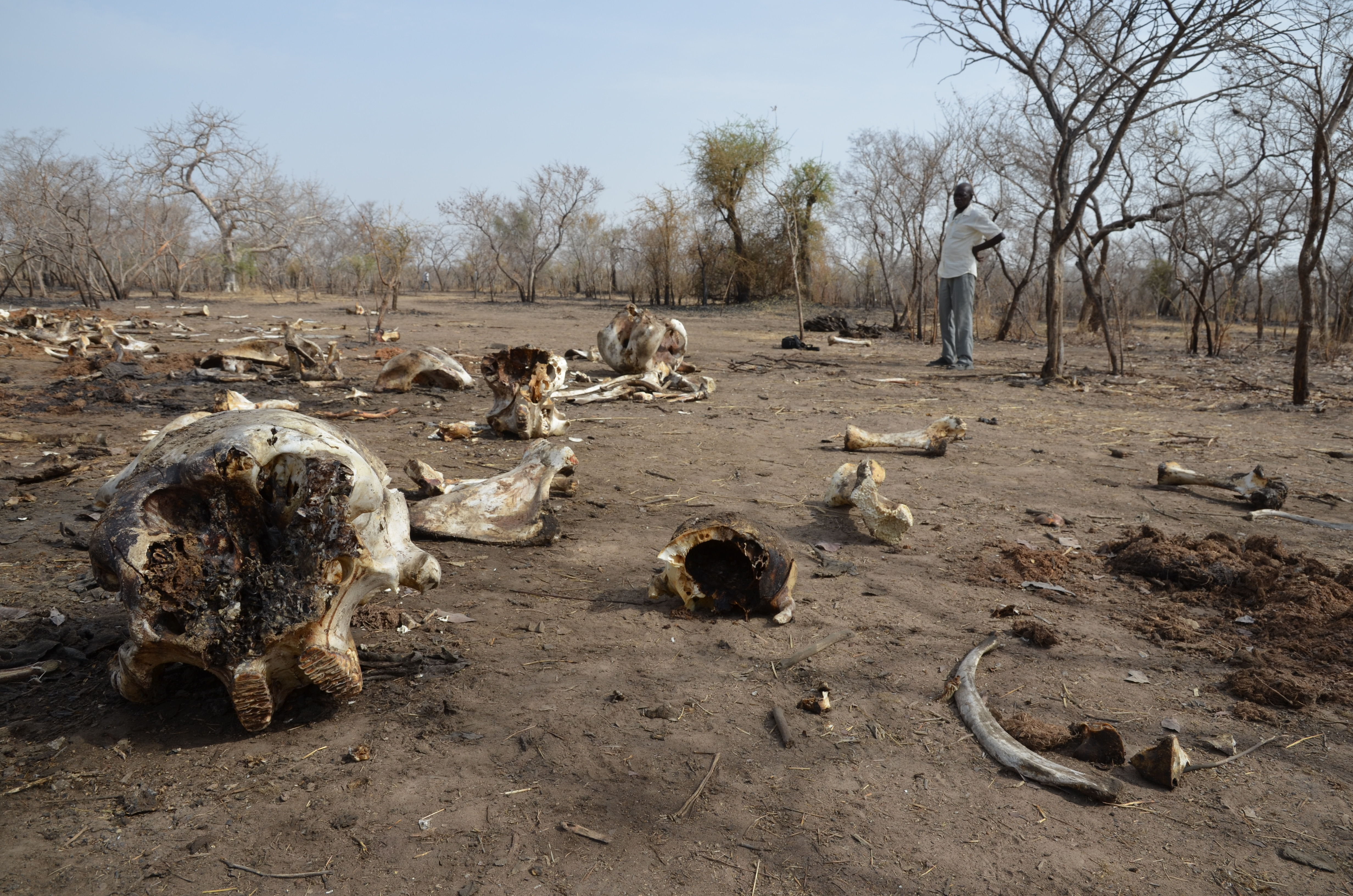 Elephant carcasses in Chad